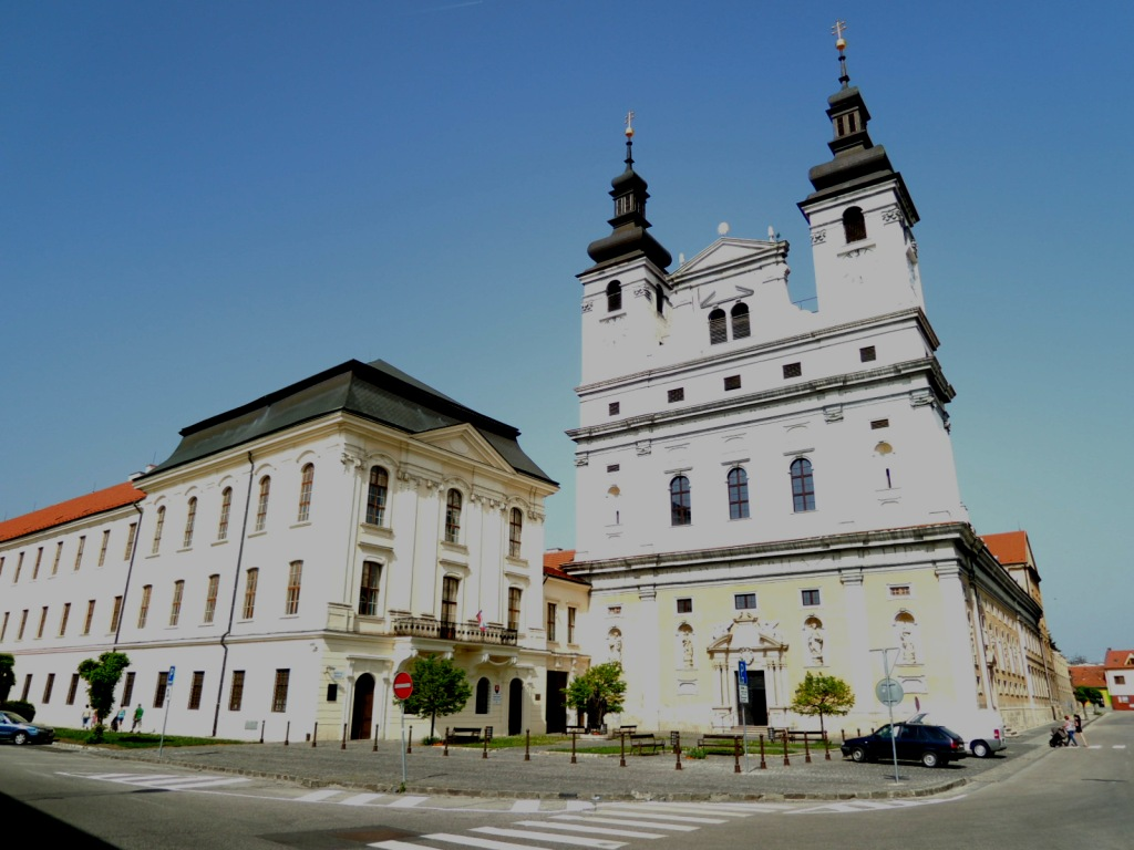 Trnava old university college and cathedral